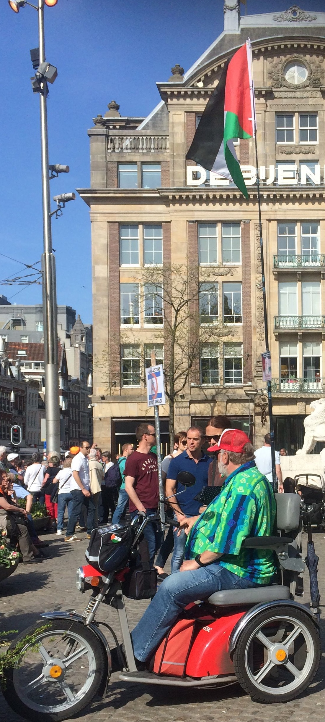 A man demonstrating for Palestine Liberation Organization on Dam Square in Amsterdam, Netherlands